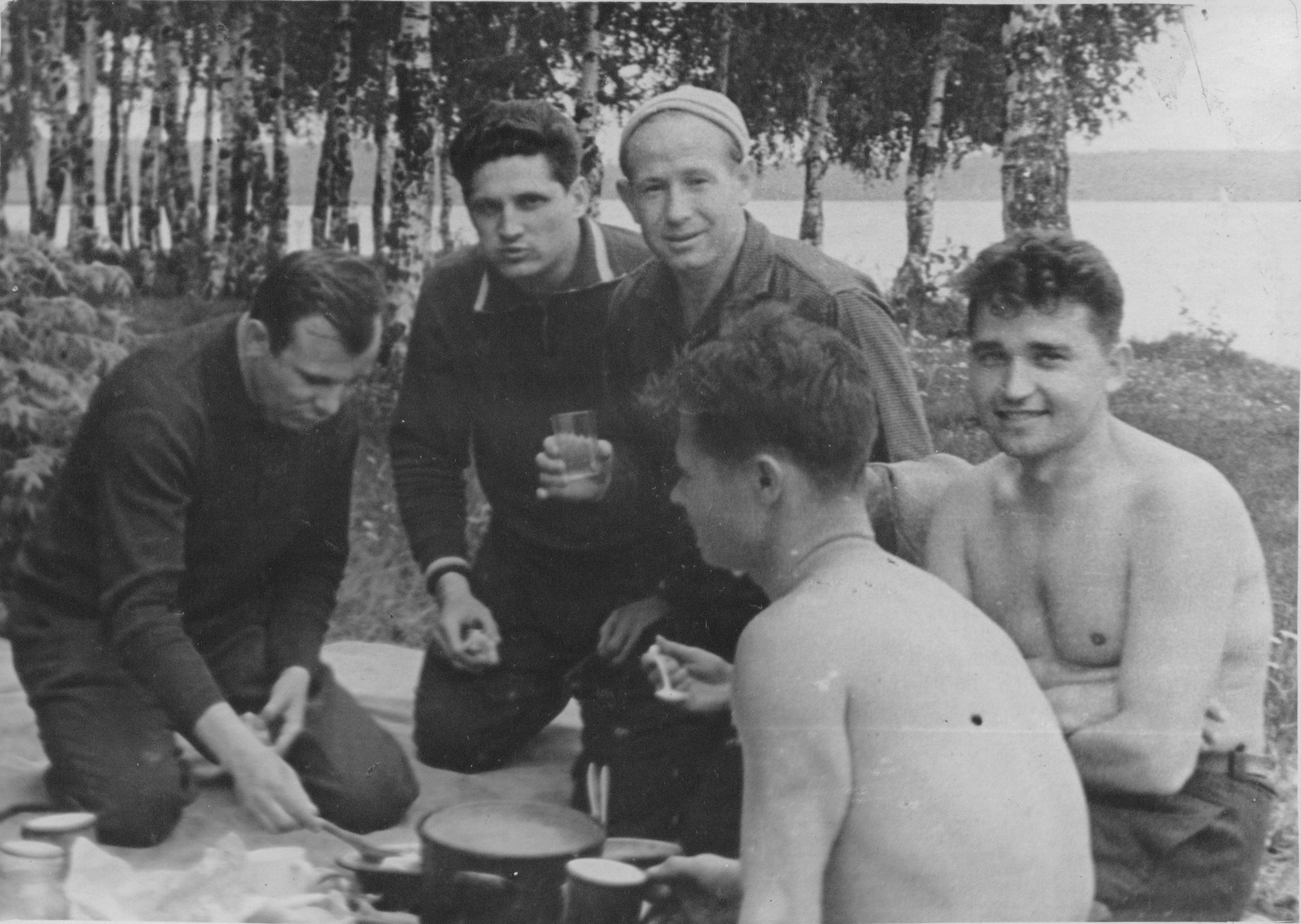 From the family album where the first soviet cosmonauts: Yuri Gagarin, Alexey Leonov, Boris Volynov, Viсtor Gorbatko - are on picnic in Dolgoprudny.